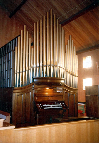 M.P. Moller tracker-action pipe organ (Opus 515, 1904) at First Christian Church in Albany, Oregon. Originally built for St. Paul's Lutheran in Annville, Pennsylvania.